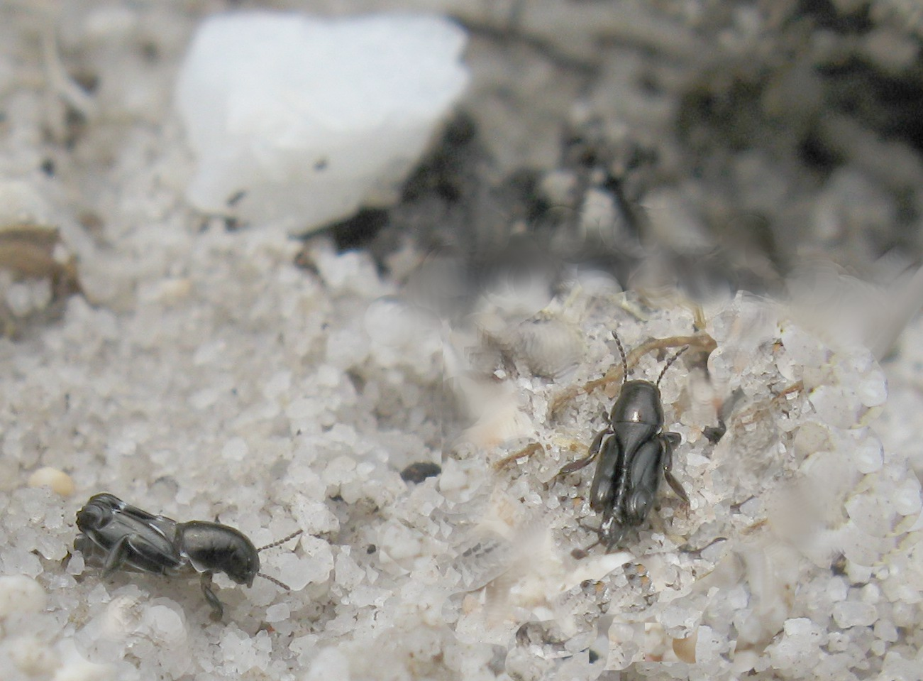 Tridactylidae, probably in genus Xya, possibly immature.